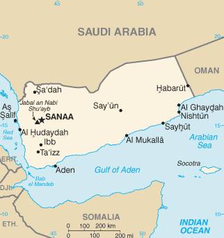 Map of the modern state of Yemen. Map of Yemen. Map of Yemen, Saudi Arabia being north of it.